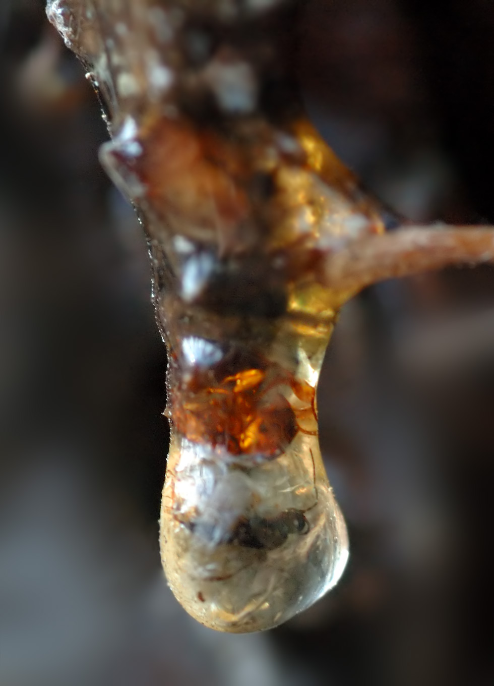 This image shows resin with an insect (an ant?).